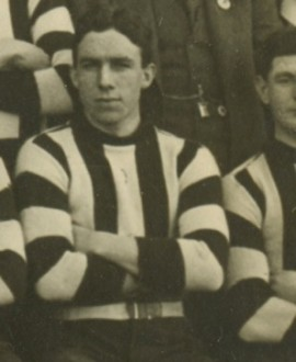 Photograph of Bryan Rush in 1913